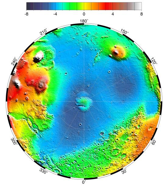 Lambert equal-area projection of pole-to-equator topography in the northern hemisphere. The Utopia Basin is the circular depression (in light blue) in the upper right.